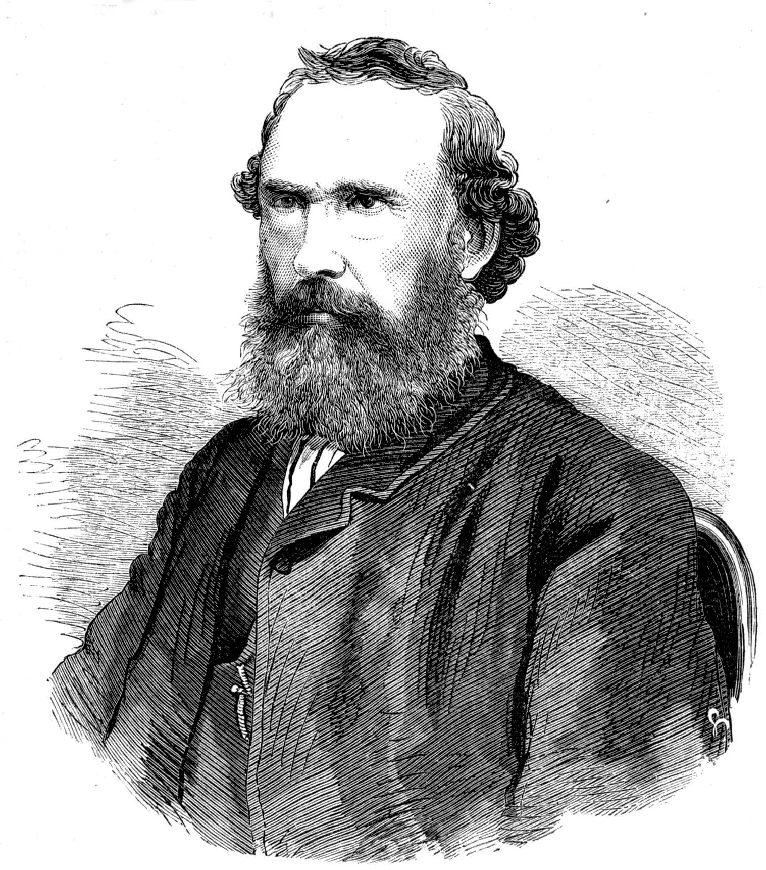 Portrait of Angus Mackay (1824–1886)